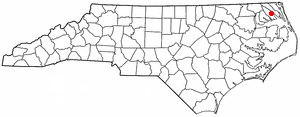 Category:North Carolina Dot Maps